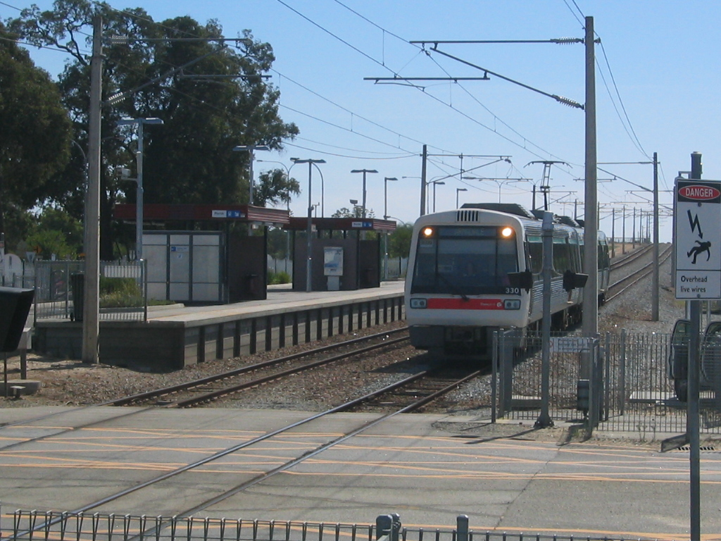 Transperth Kenwick Train Station